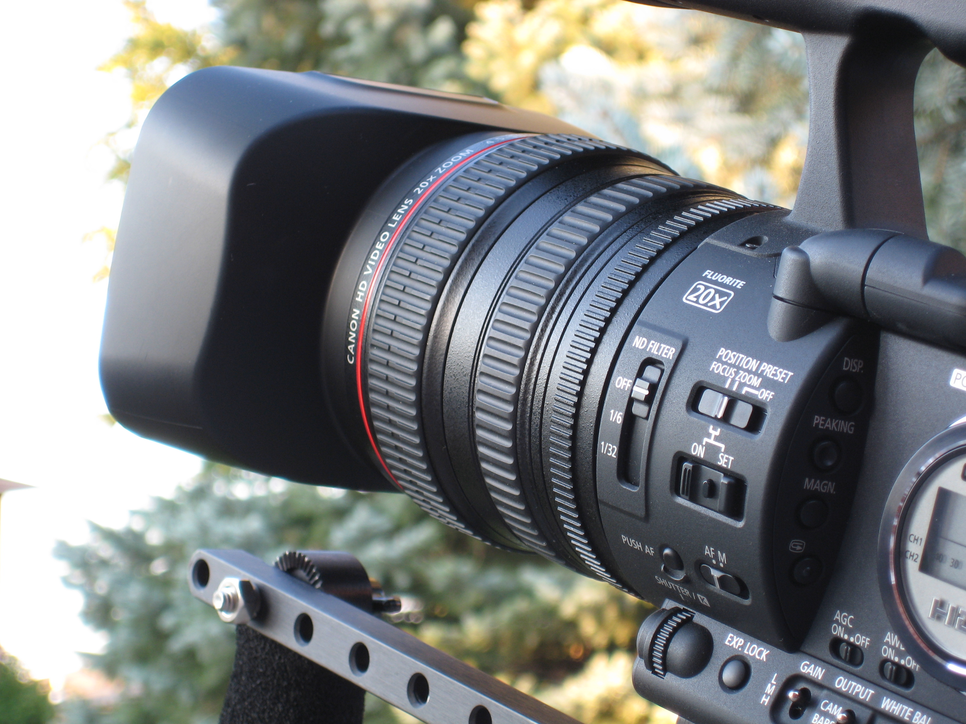 The Canon XH-A1 has three traditional rings effecting the focus, zoom and aperture. However, these rings are not physically part of the lens, instead their movement is read by a sensor which then electronically drives the lens components.